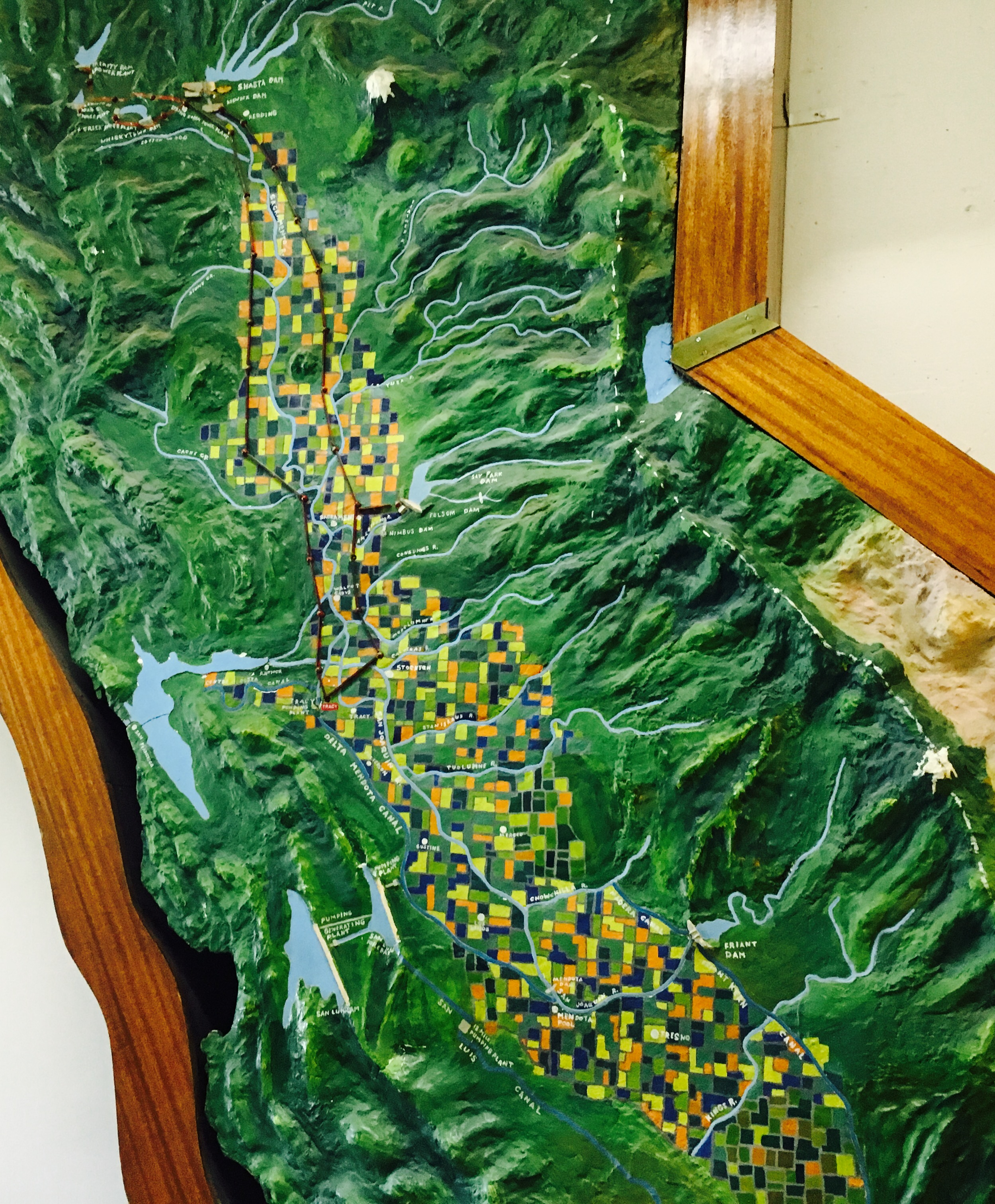 A 2-D model of California's Central Valley Project done by the Bureau of Reclamation.